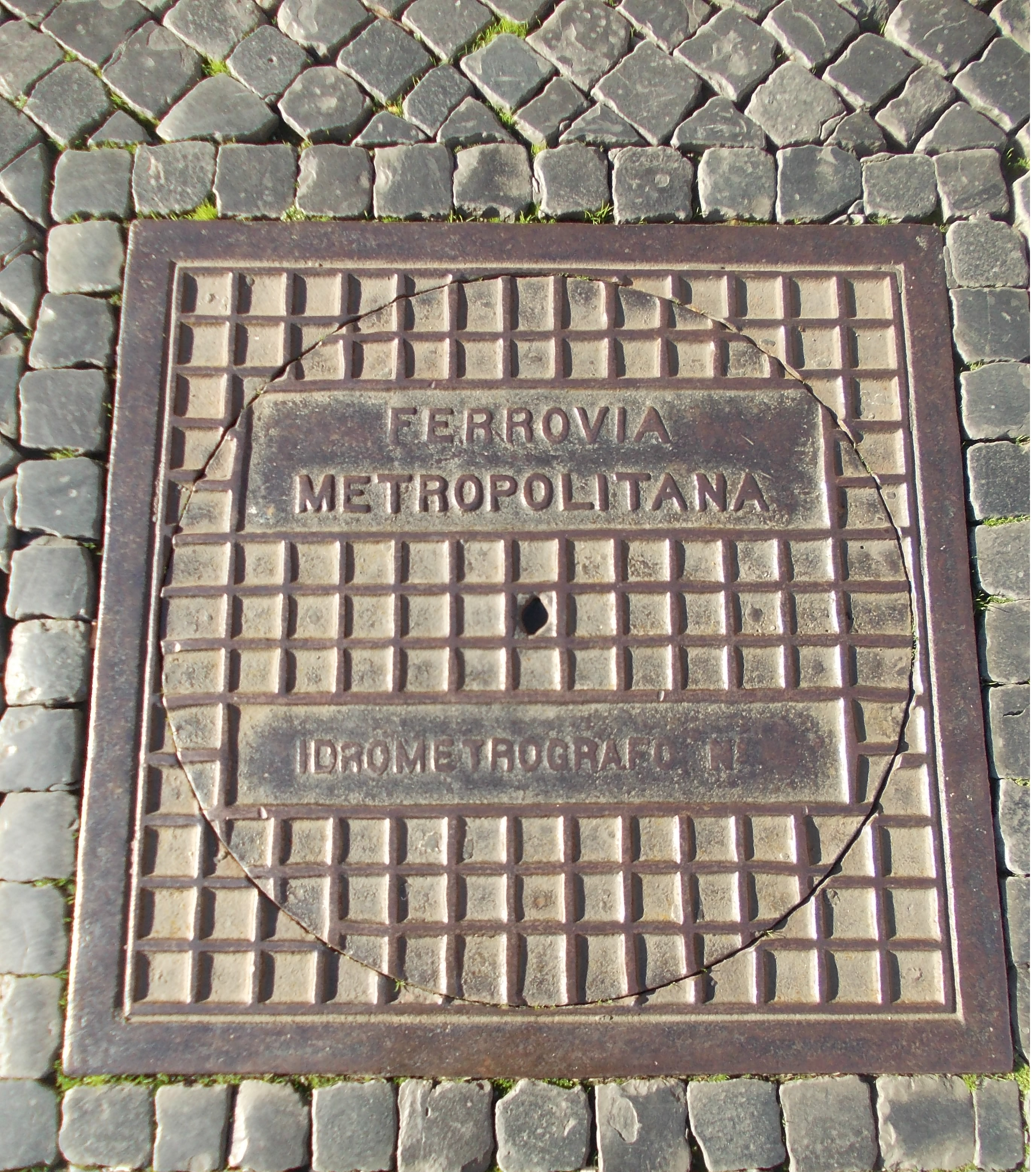 Manhole cover in Piazza Navona, (Rome) used for hydrometric studies for subway projects in at the end of XIX century